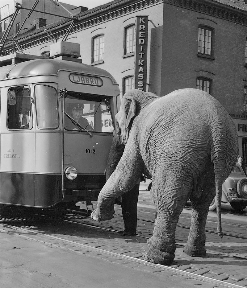 Description: The Indian elephant Letzie from Cirkus Berny. Photo Arne Køpke. Billedbladet NÅ No 11, 1954 Archival reference: PA797_470. Text: "A test of strength at Grønland square. The Indian elephant Letzie at Cirkus Berny weighs 4 tons, and here she tries her strength with the Ekeberg tram. She is born in Ceylon, is 30 years old and has spent her whole life at the circus. Here she is in the middle of the tram line in front of Grønland square, and to move her, even the tram has to have strong momentum. There was quite a commotion when Letzie straddled out of the circus tent in the middle of the rush hour to have a look around in the city.”